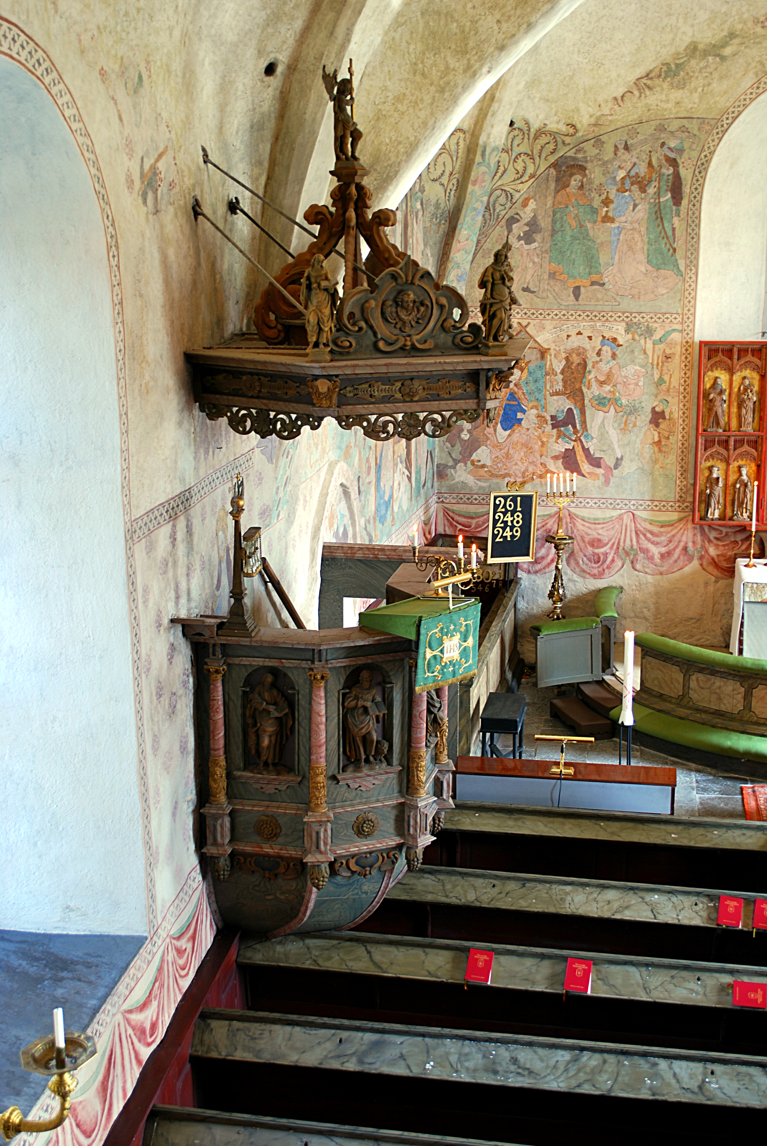 Pulpit, Husby-Sjutolft Church, Sweden. Painting by Albertus Pictor